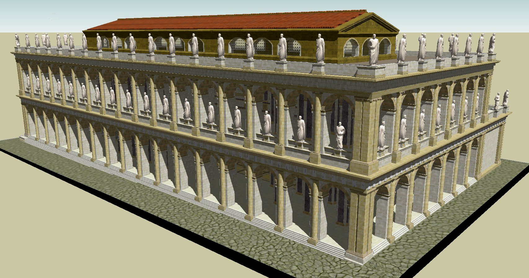 This is a derivative work of a 3D, Computer generated image of the Basilica Julia by the model maker, Lasha Tskhondia - L.VII.C.[1]. Variations to the original model include shadows, adjusted for good lighting as well as the file being adjusted for color and contrast.